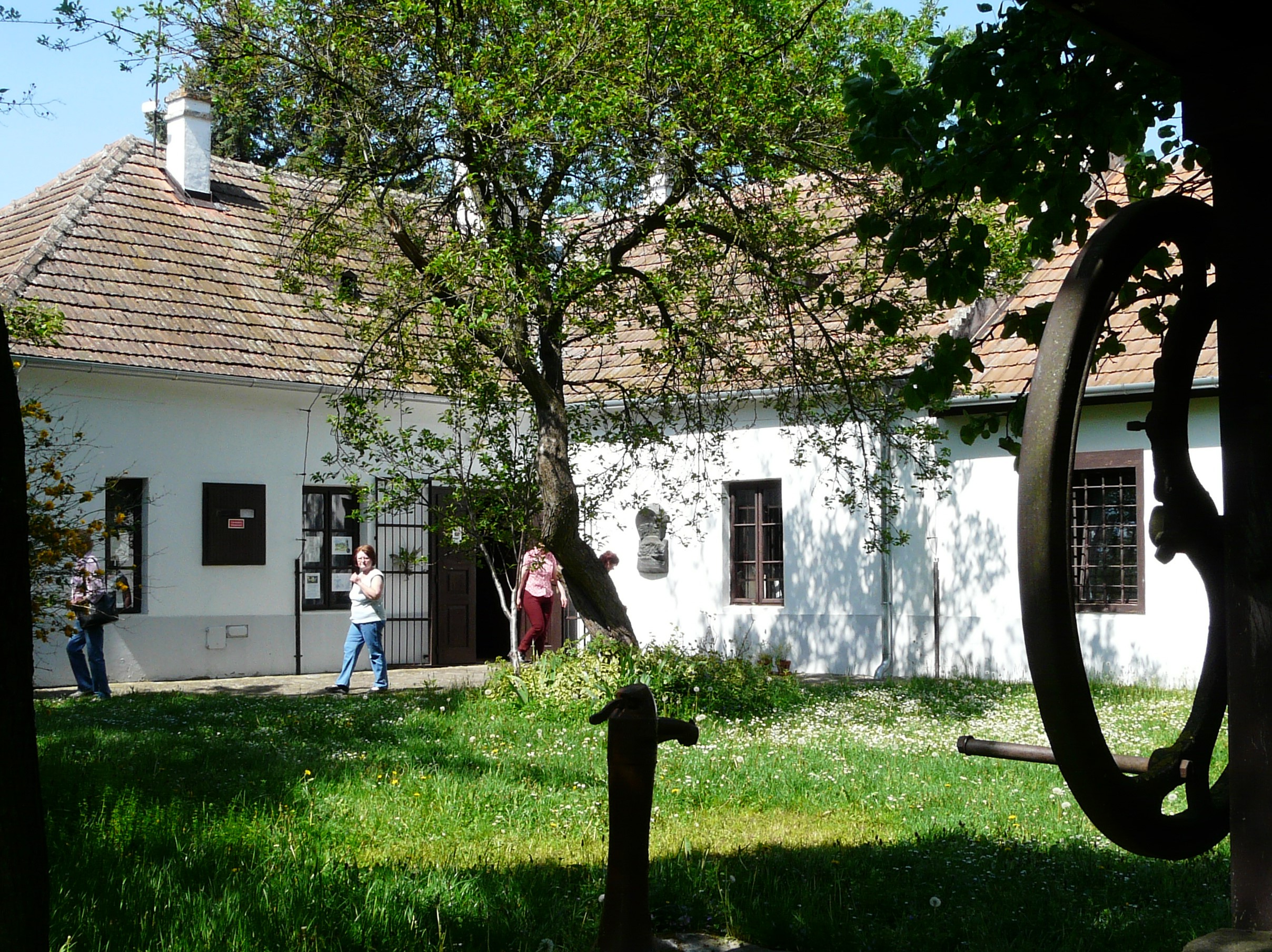 Memorial house of Hungarian poet Laszlo Nagy in Iszkáz (Veszprém County)